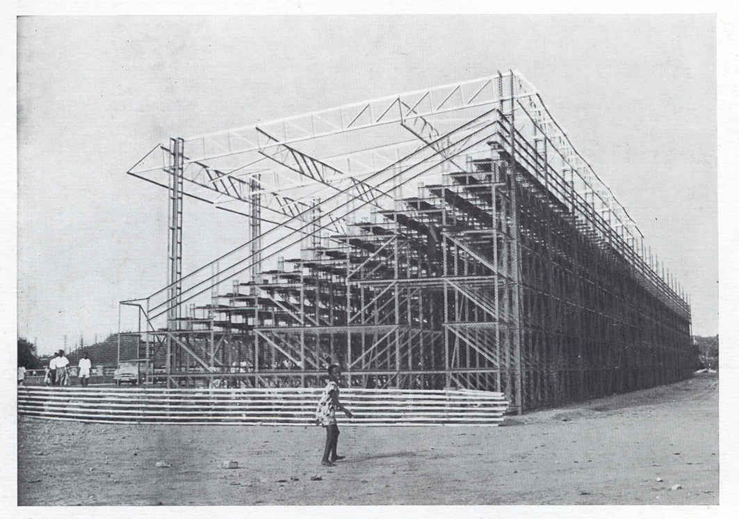 Stadium for Ghana independence day - slotted angle used for construction